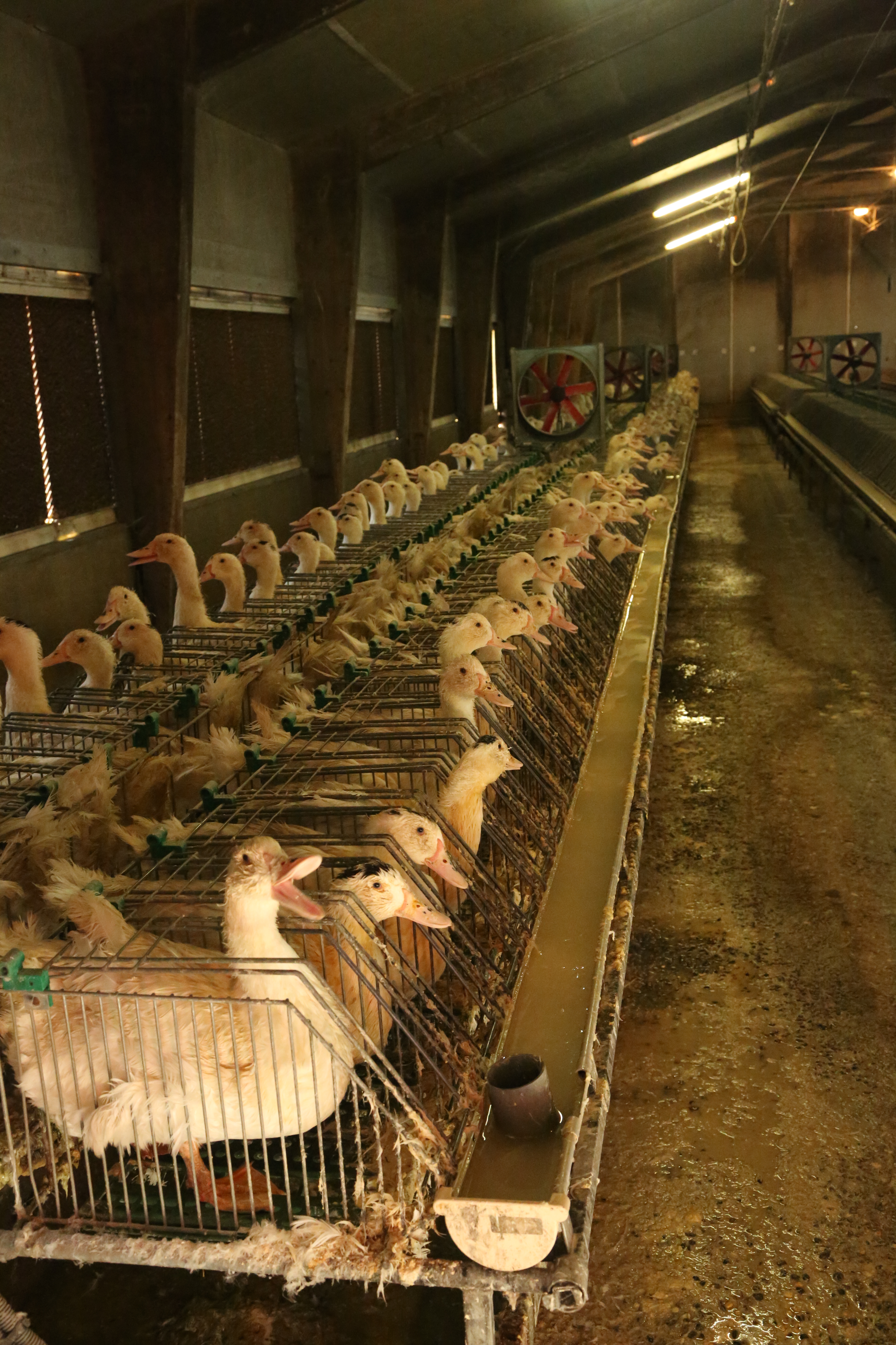 Fattening of ducks in single cages with force-feeding for the production of fatty liver ("foie gras") in France in 2012.